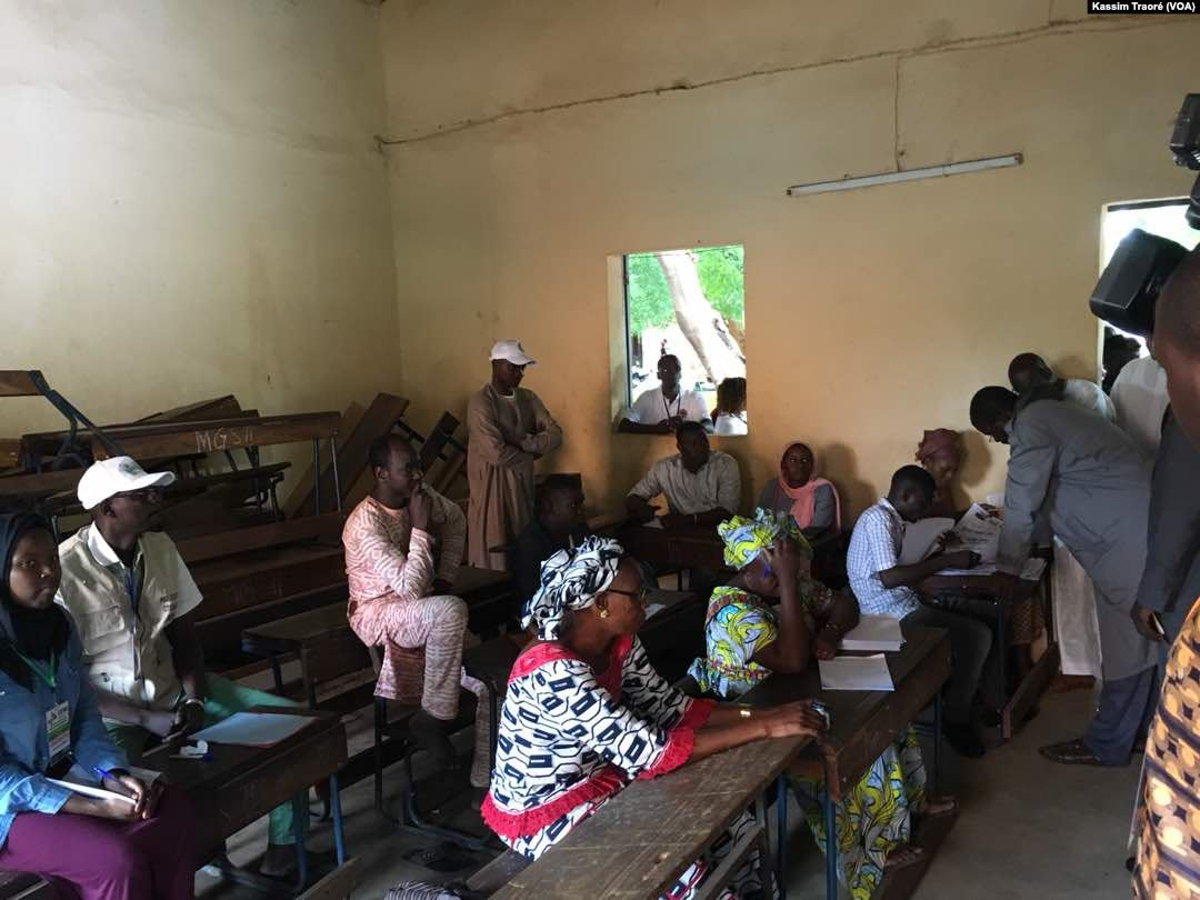 Voting station in Bamako, 29 July 2018